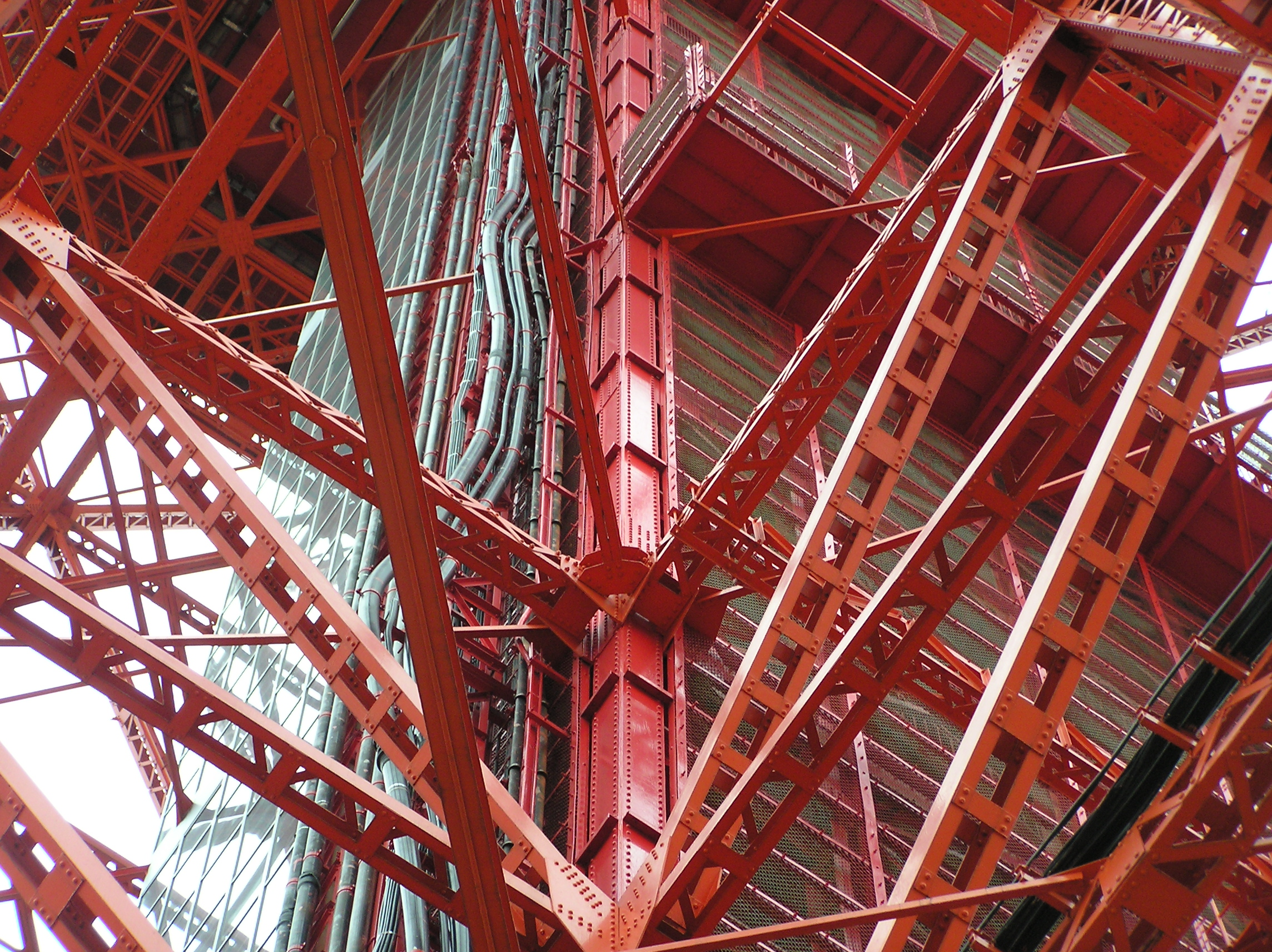 The iron frames of Tokyo Tower